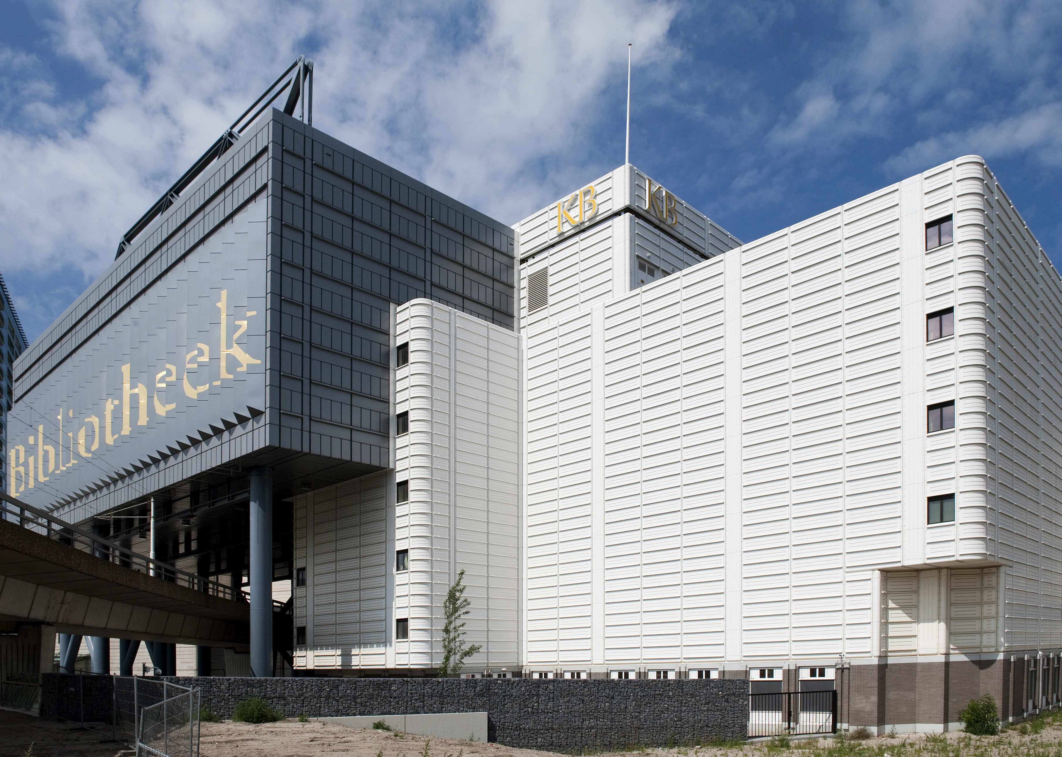 Koninklijke Bibliotheek, 2009 Voor meer informatie over de Koninklijke Bibliotheek, bezoek . Image uploaded on 02-10-2013 from the Flickr stream of the Royal Library, The Hague (Koninklijke Bibliotheek, KB, national library of the Netherlands)